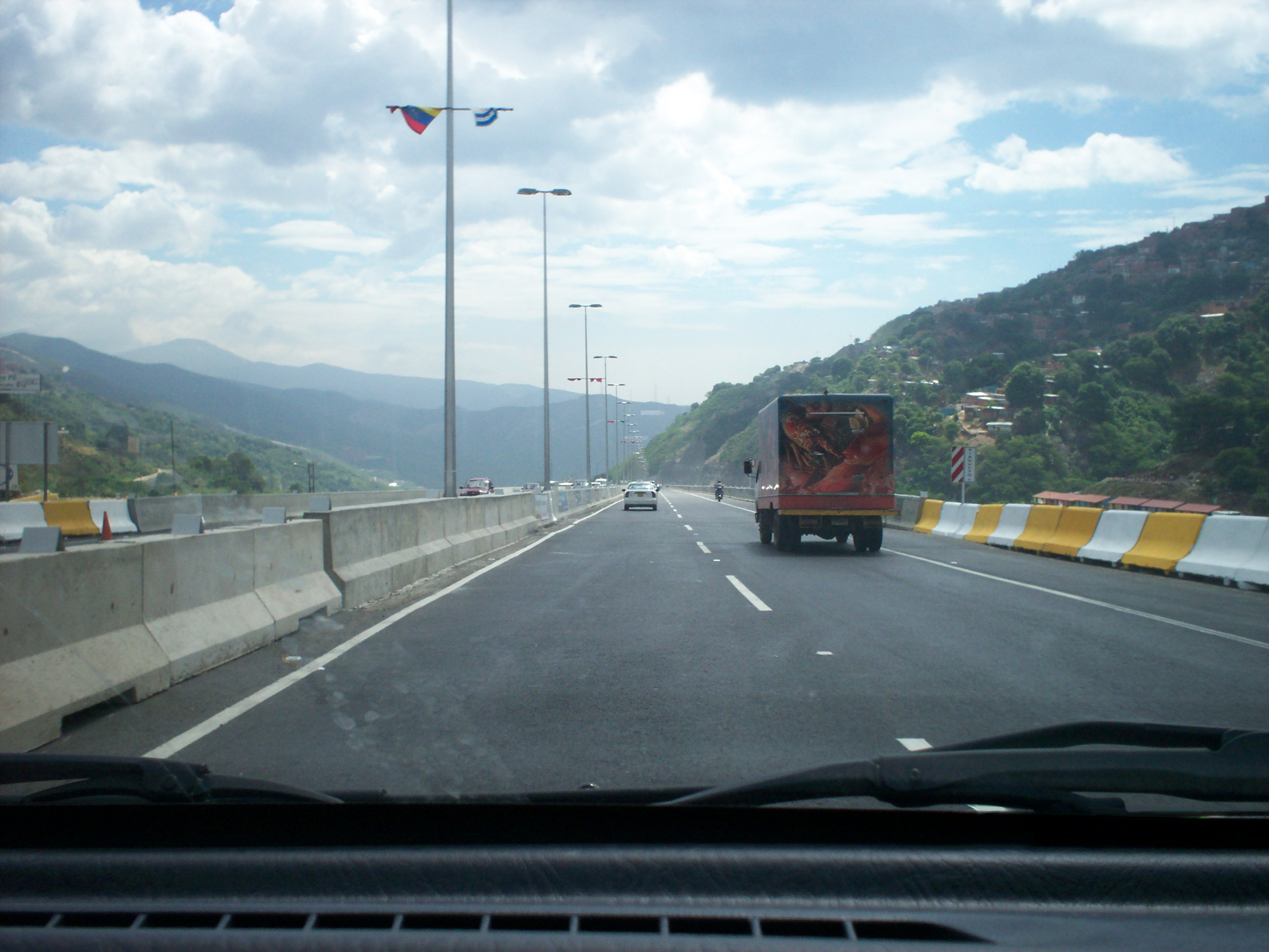 The New Viaduct N°1 a few days of his inauguration.